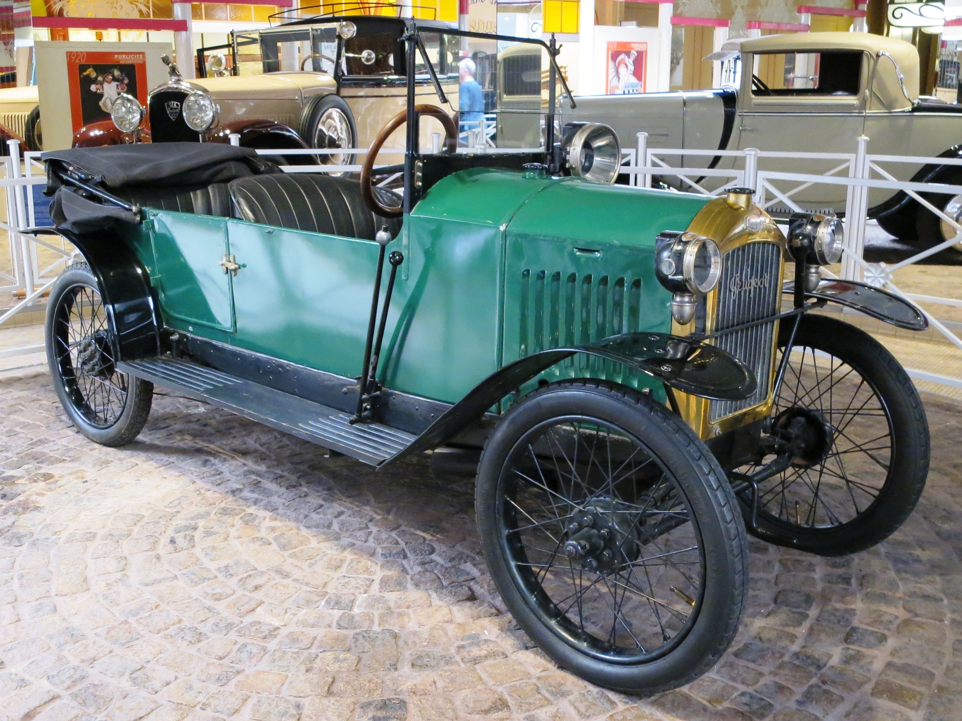 Peugeot Type 161 Quadrilette